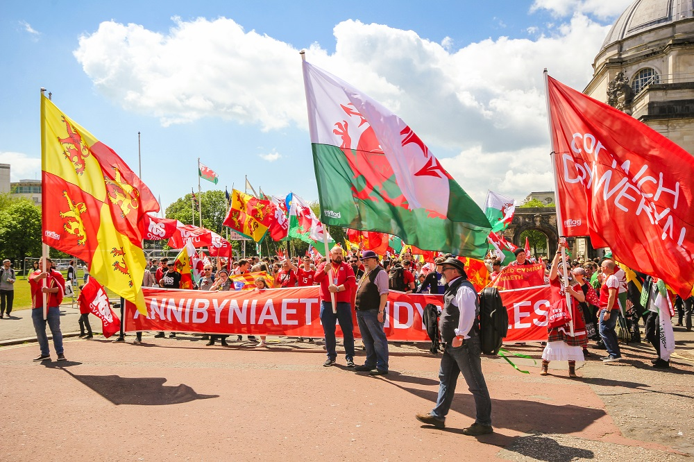 A march for Welsh independence on 11 May 2019 in Cardiff, Wales, organised by All Under One Banner Cymru